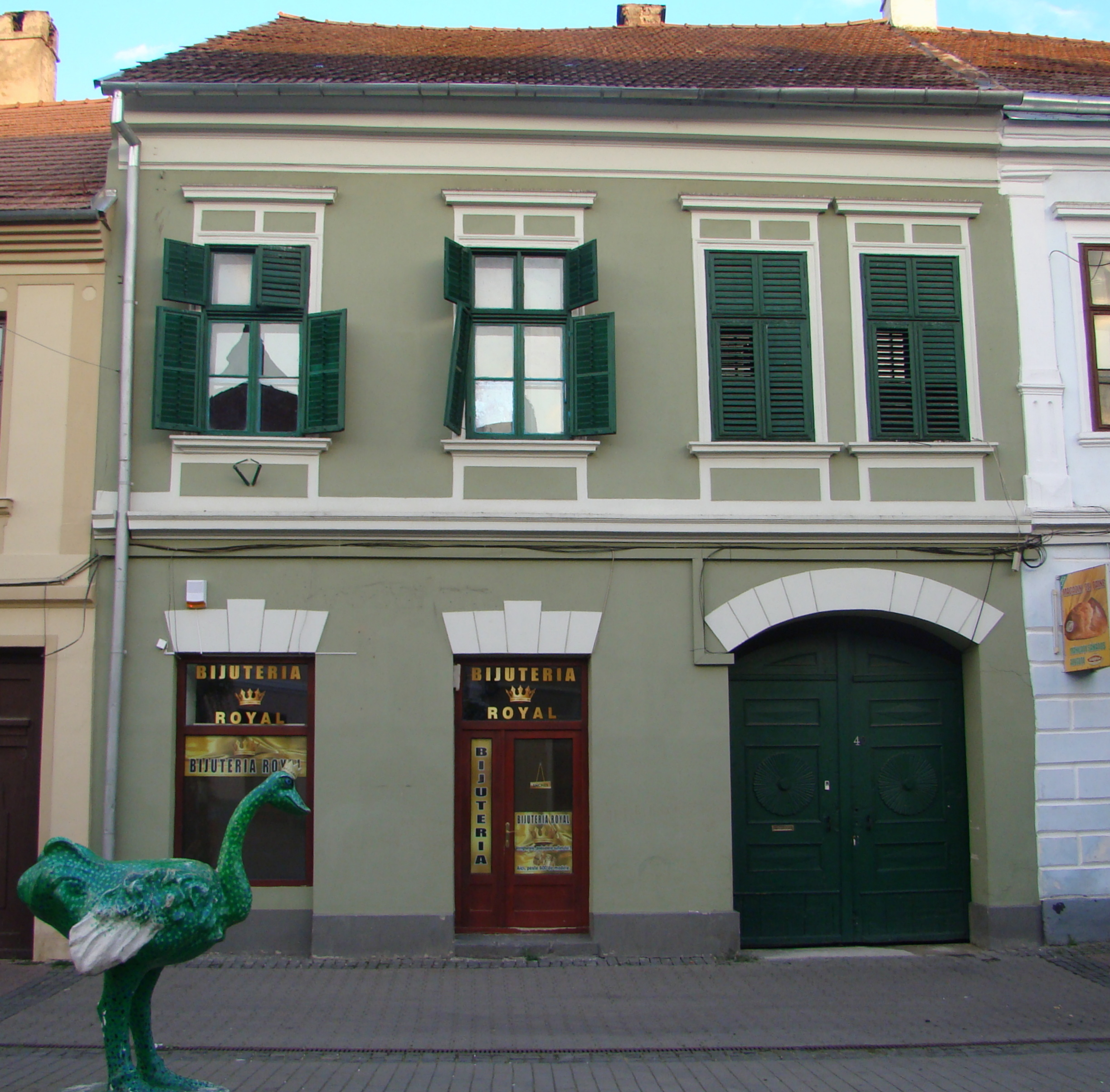 House, historic monument, in Bistrița, Liviu Rebreanu street 40